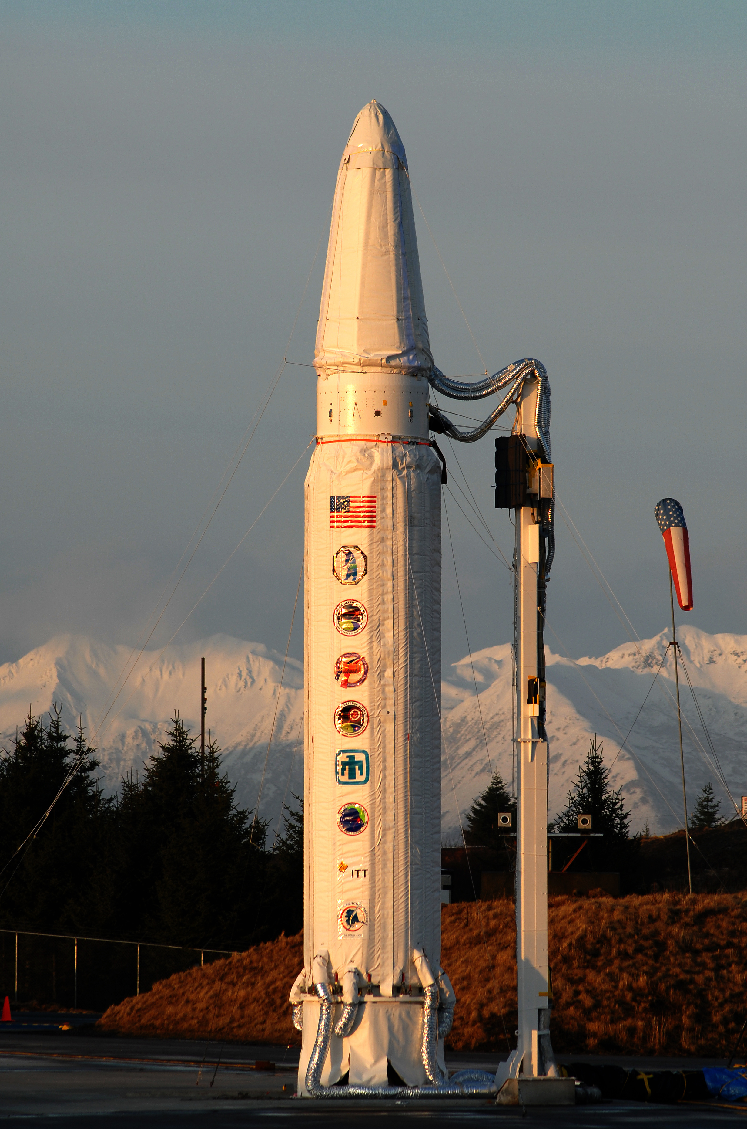 A STARS-1 (modified Polaris A3 missile) rocket rests at the Kodiak Launch Center Launch Pad 1 while covered with thermal blankets. This rocket was launched on February 24, 2006, as part of the Ground-based Midcourse Defense program, and was successfully tracked by the Beale AFB radar system during the exercise. Target data, including a weapon task plan (firing solution), was successfully transmitted to the Joint National Integration Center in Colorado Springs, Colo. where it was inputted into the Command, Control, Battle Management and Communication system for the Ballistic Missile Defense System.